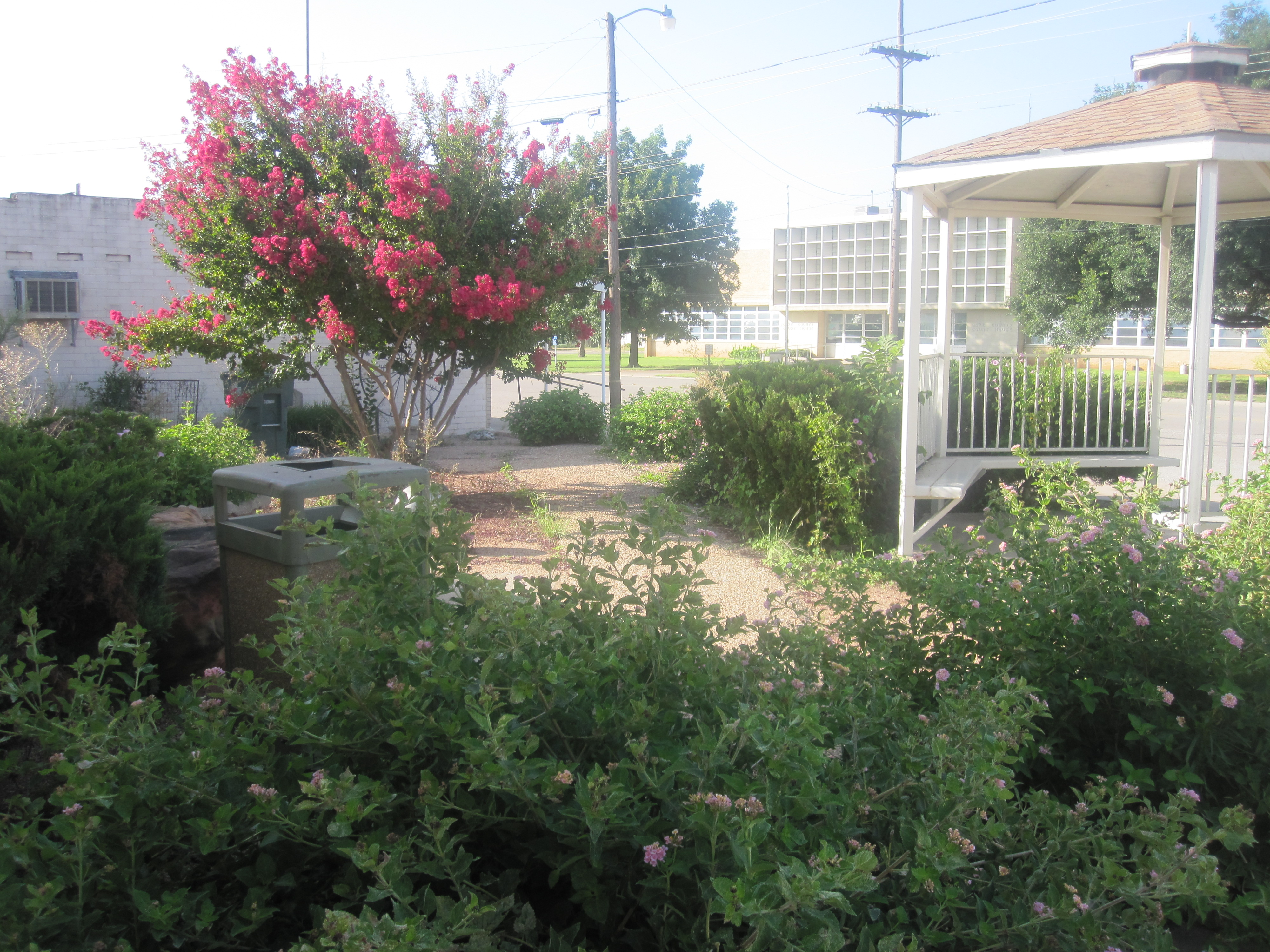 I took photo with Canon camera in Robert Lee, TX.